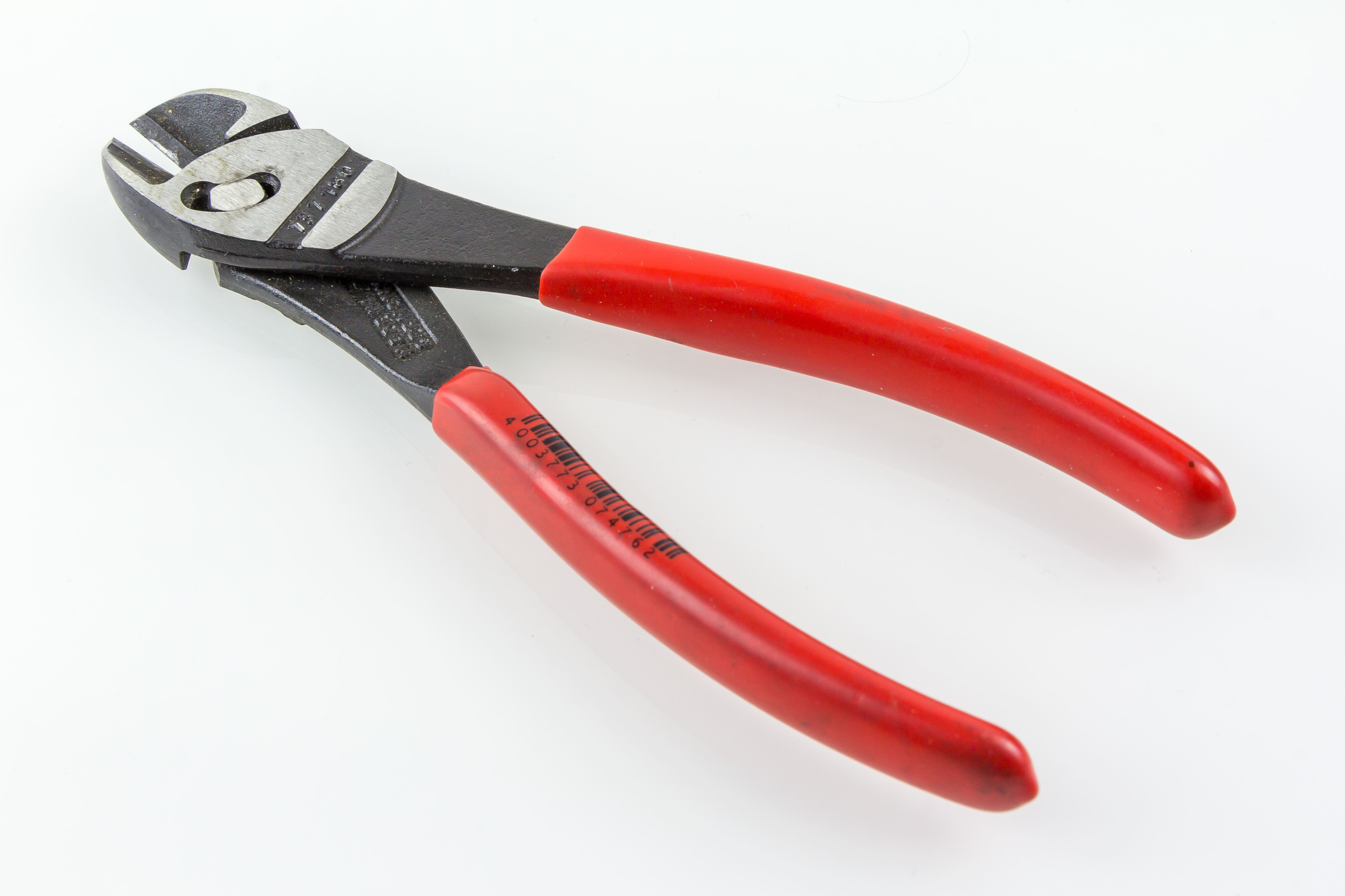 Knipex high performance diagonal cutters (product name: Knipex TwinForce, Nr. 7371180)